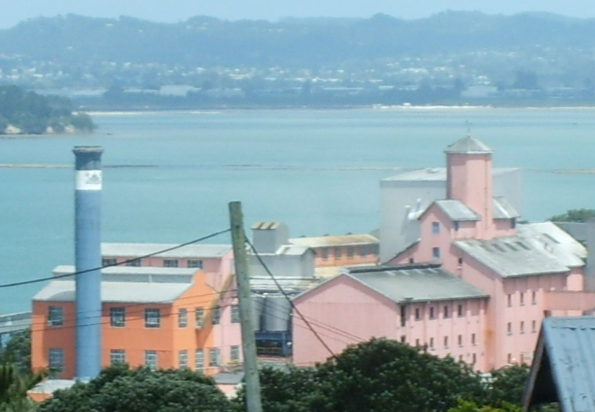 Chelsea Sugar Refinery showing the 1883 Char House on right